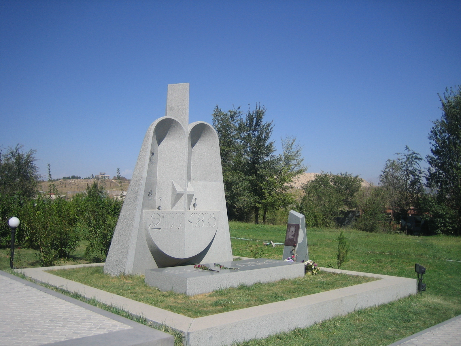 This is a picture of General Antranig's memorial at Yerablur that I took in September, 2005. 7/1.1 The image is free/open for any use.